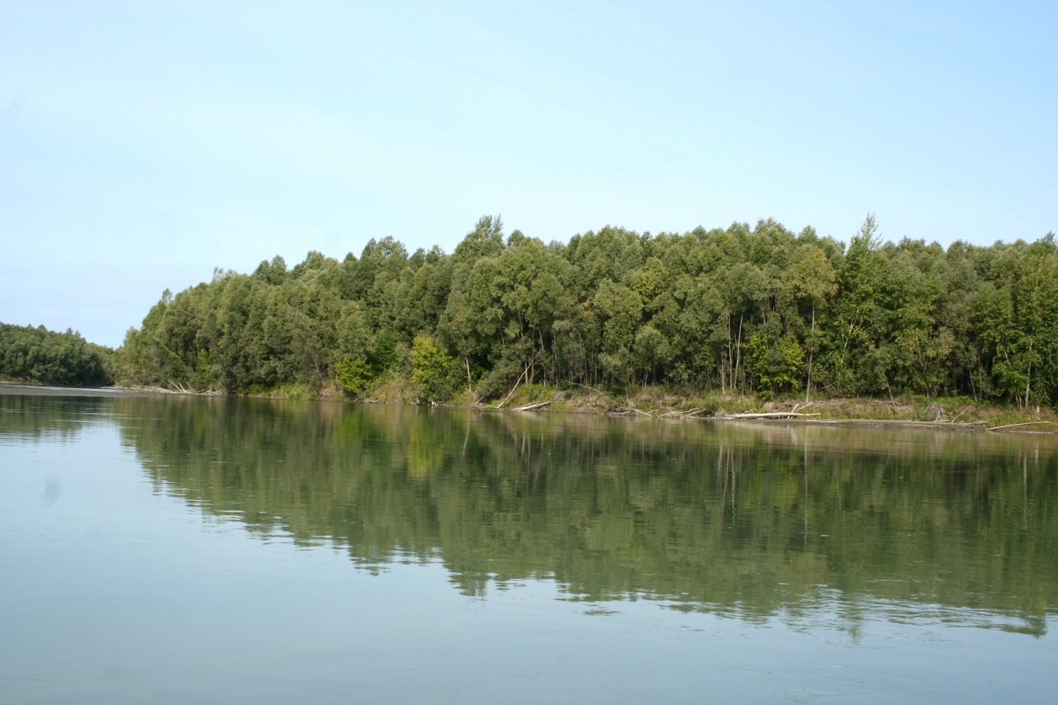 Ob River (Russia).